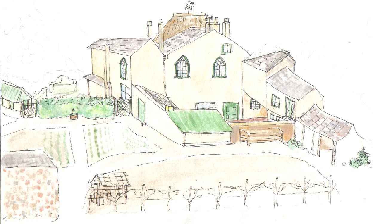 A drawing of the back of Woodway House as it appeared in the late 1950's before the barn collapsed.